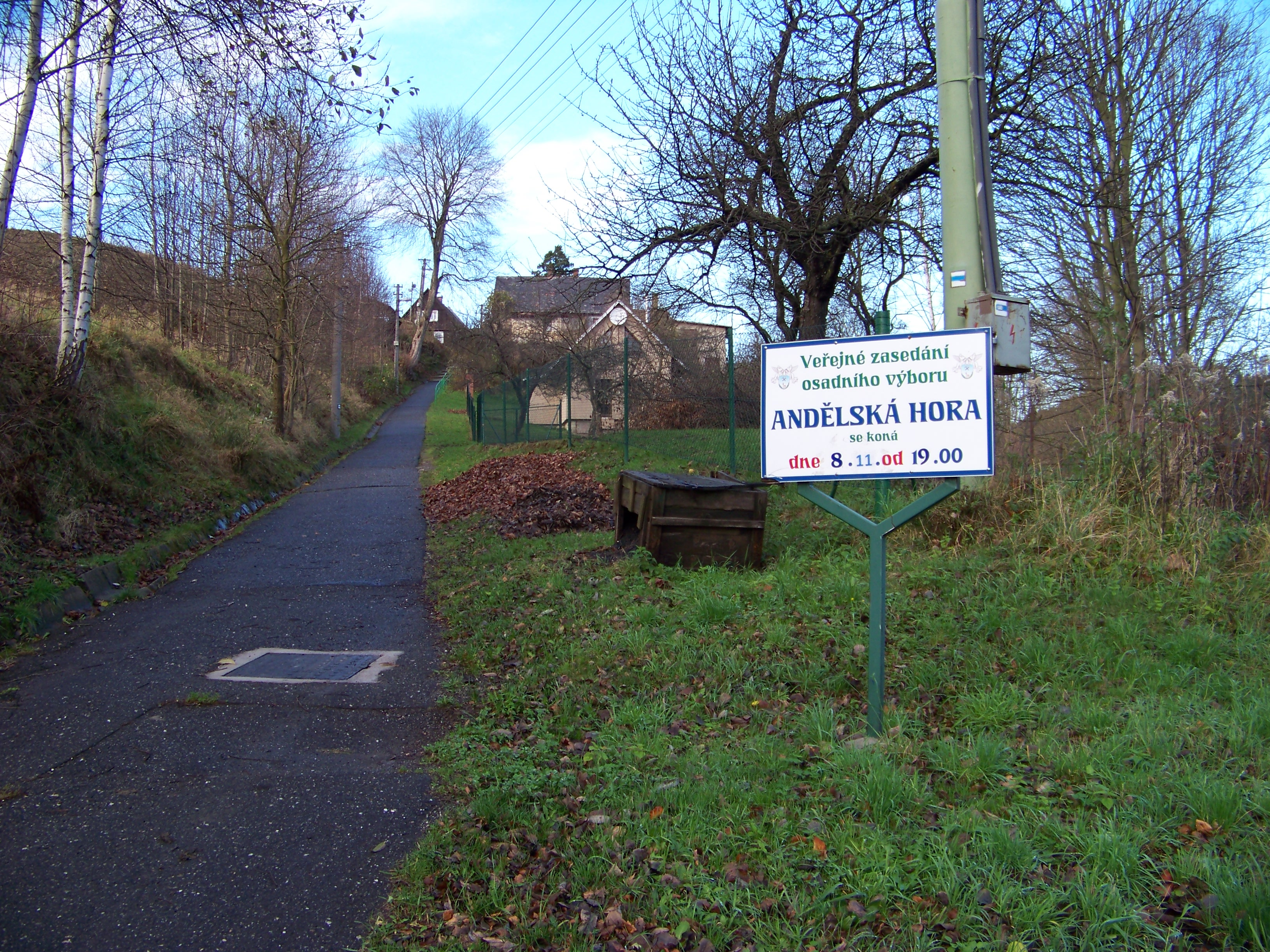 Chrastava-Andělská Hora, Liberec District, Liberec Region, Czech Republic. A path from the train stop. - Google Maps - Google Earth